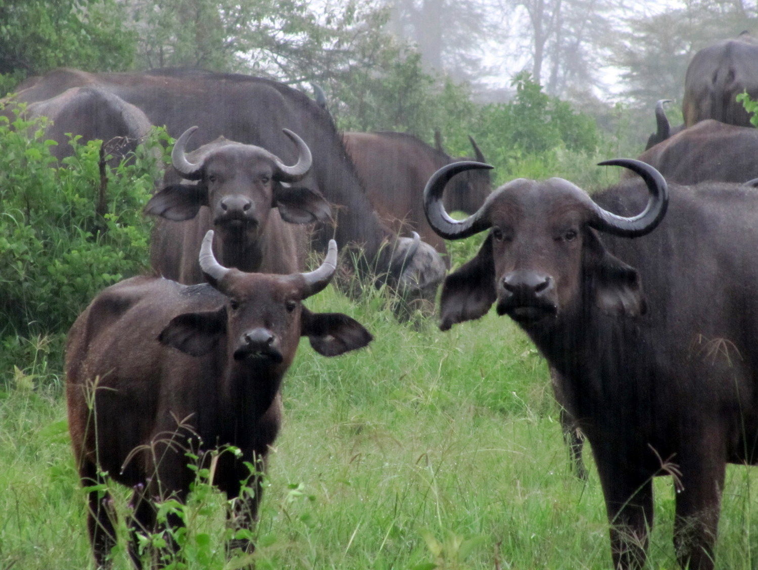 African Buffalos in Lake Nakuru National Park, Kenya. Raining.